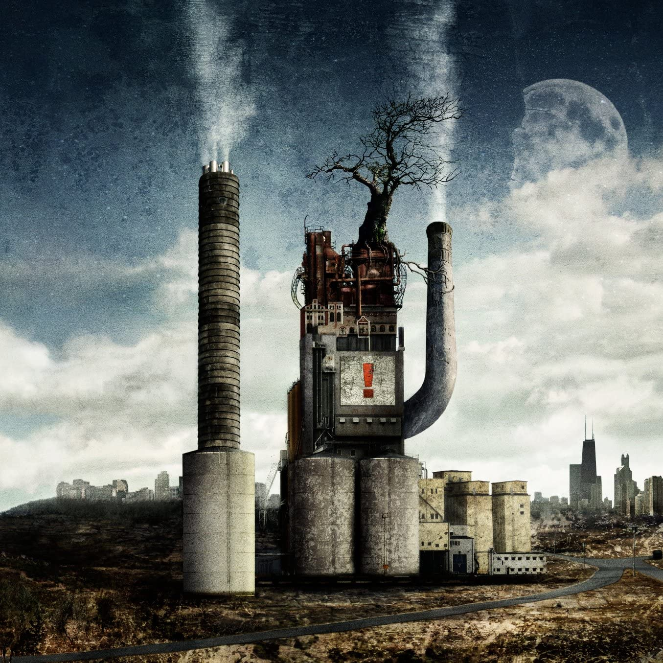 Cover of enochian theory's 2nd album EVOLUTION: Creatio Ex Nihilio